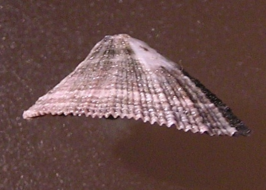 Diodora saturnalis, Carpenter, 1864; a keyhole limpet from the family Fissurellidae; Tortuga Island, Costa Rica